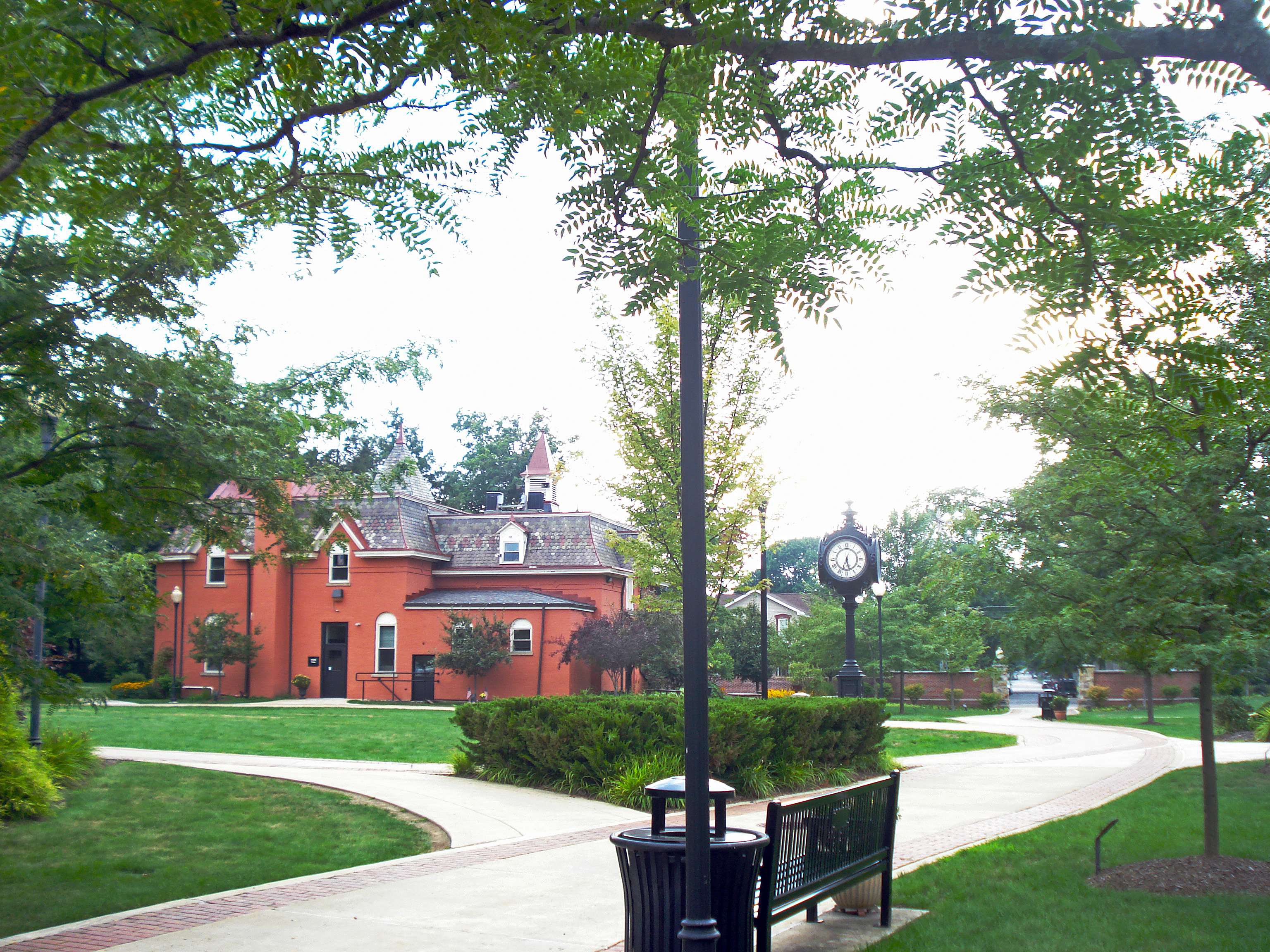 A view from the grounds at University of Pittsburgh Titusville